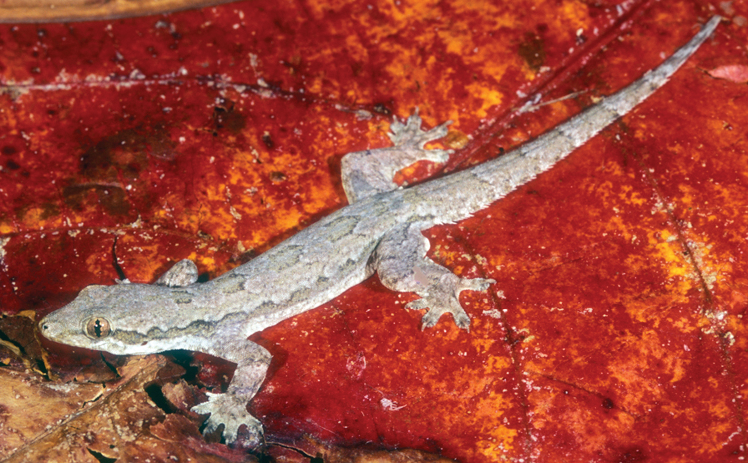 Hemidactylus platyurus. Male from Loré 1 village, Lautém District (USNM [CMD 458], SVL 41 mm, TL 91 mm). Photo by Mark O’Shea.